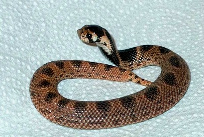 Small shield-nosed cobra (Aspidelaps scutatus)